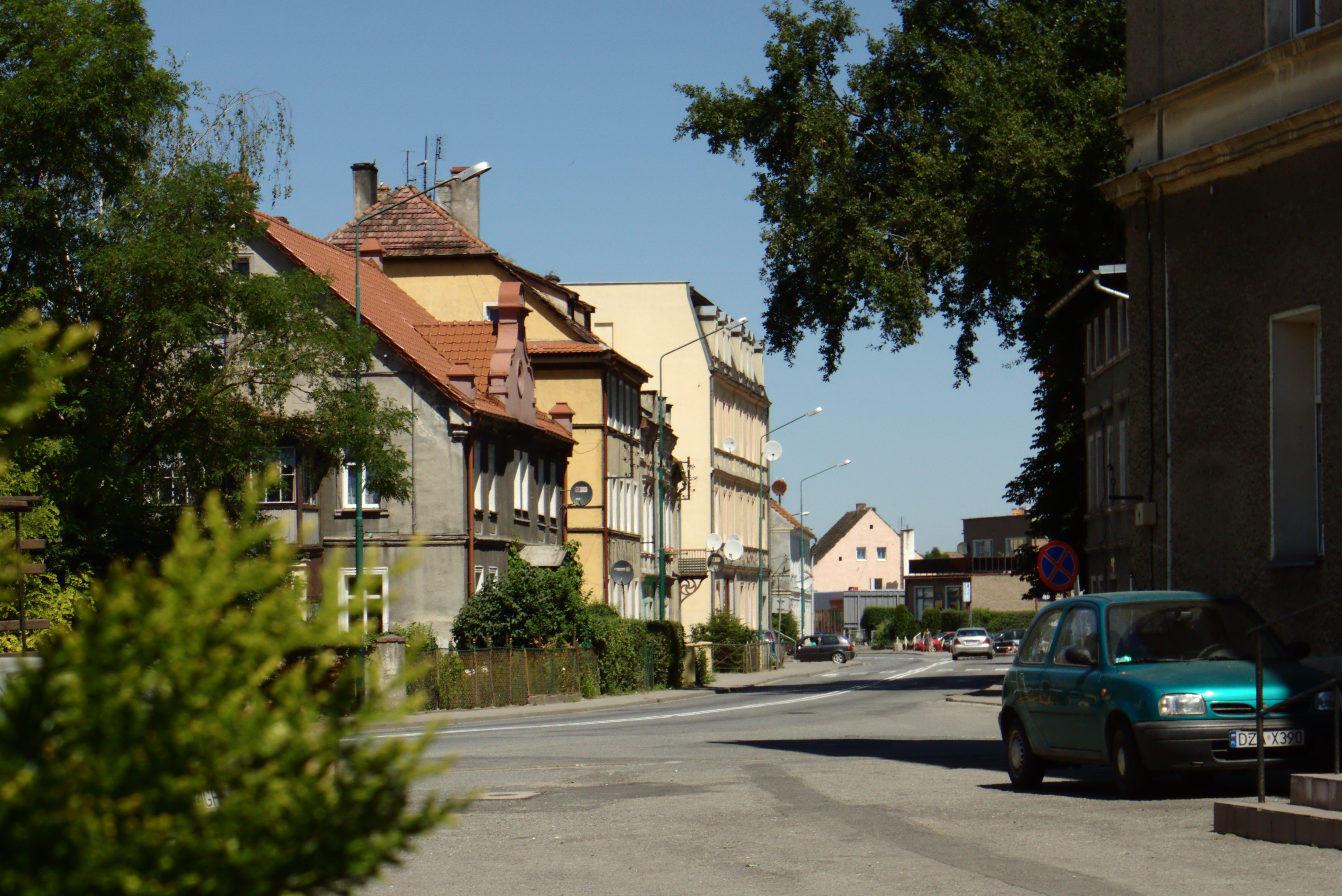 A street in the southern part of the town of Kamieniec Ząbkowicki, Poland